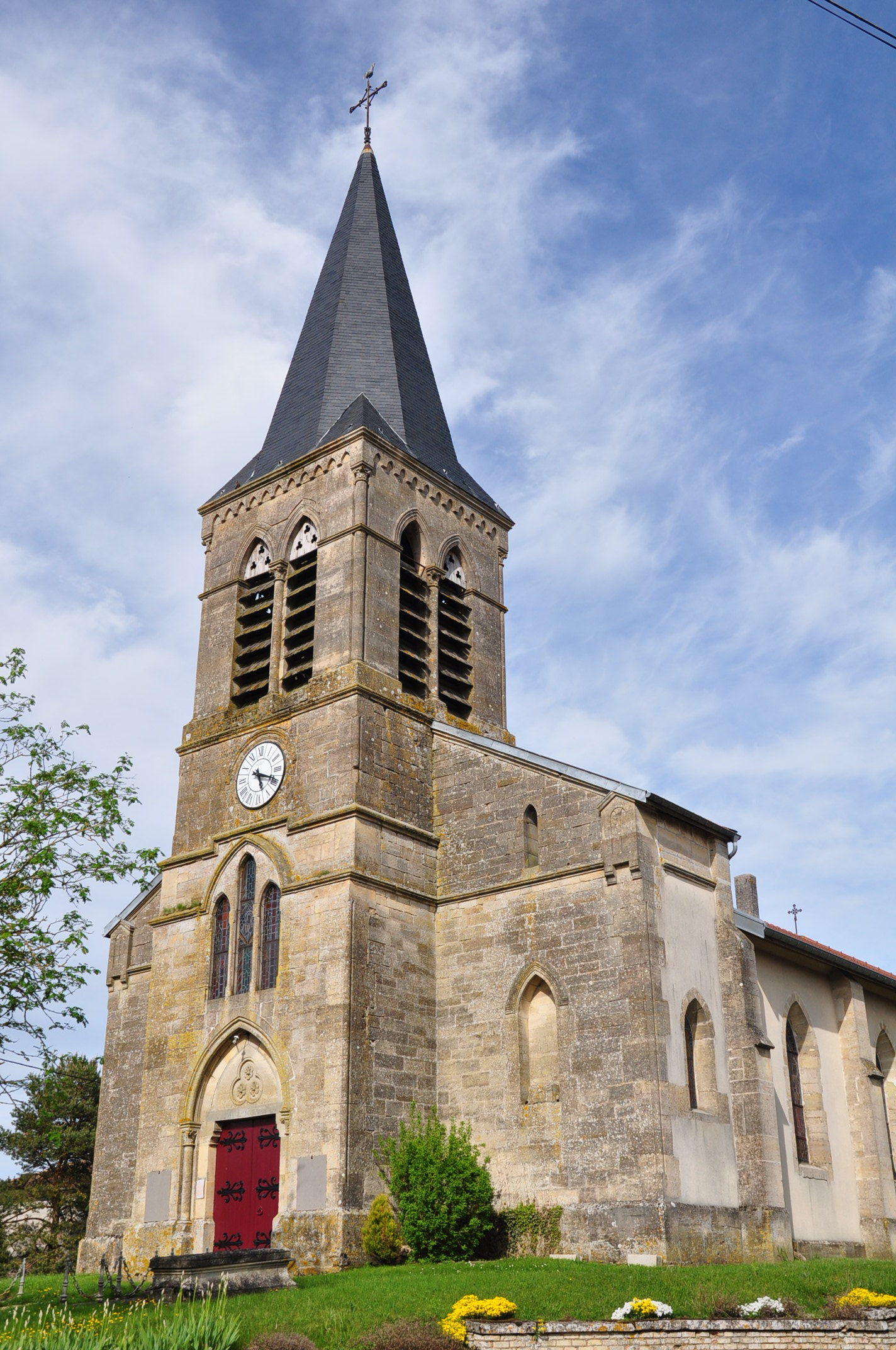 Church of Brizeaux (Canton Seuil-d'Argonne, Meuse department, Lorraine region, France).